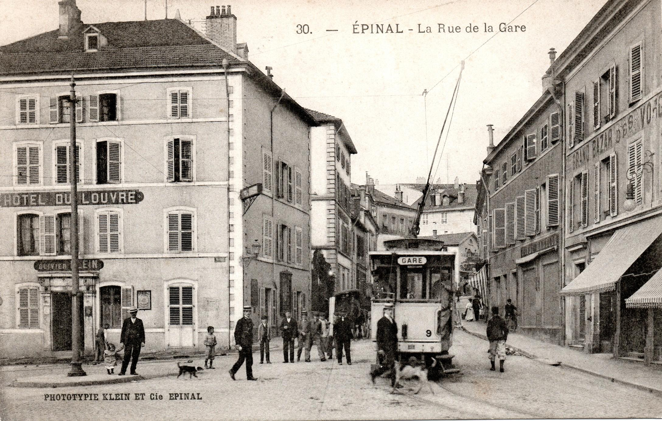 electric Tram in Epinal (France), Rue de la gare, around 1908 - vintage postcard published by " Klein et Cie Epinal"